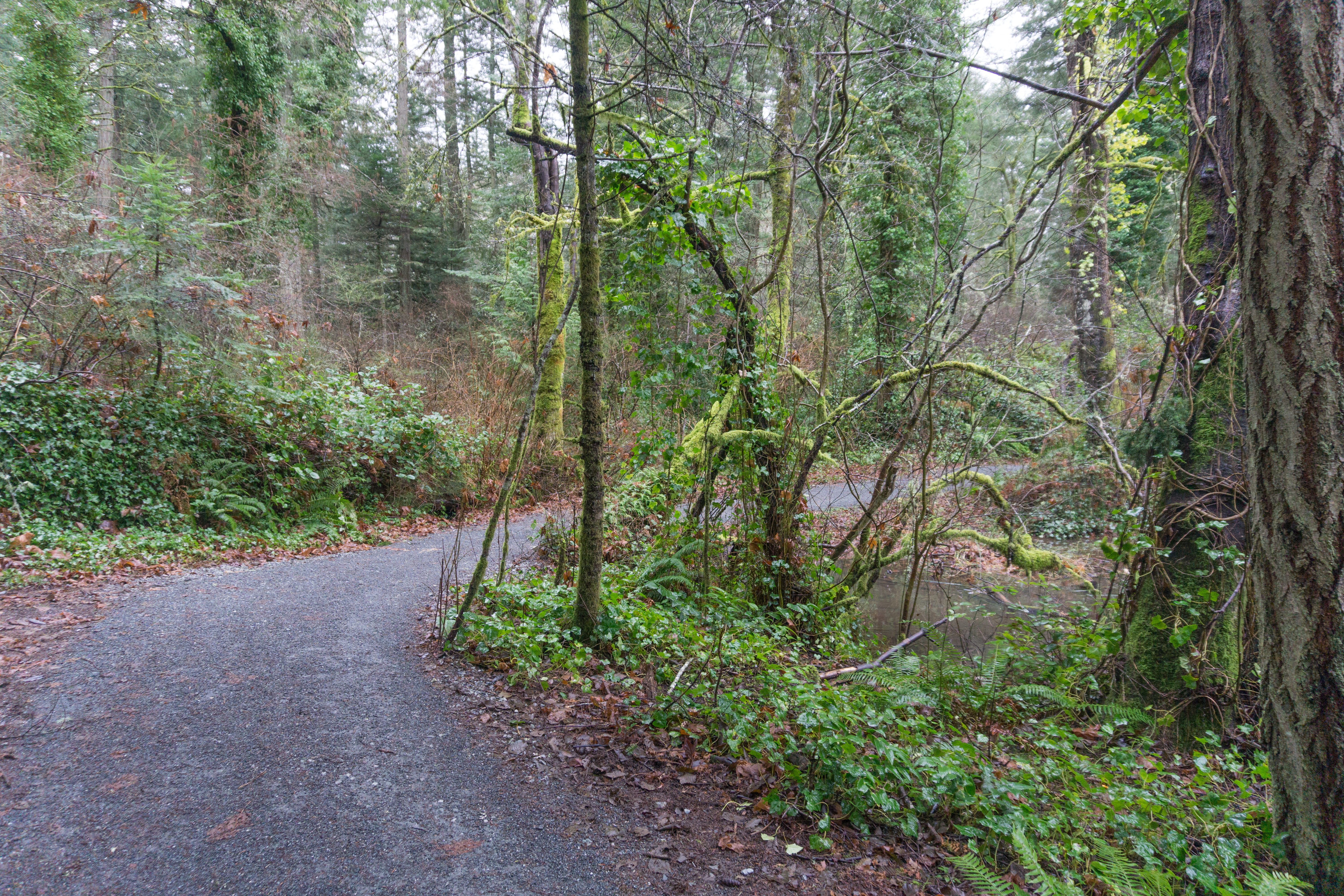 A parh around Elk Lake, Saanich, Canada